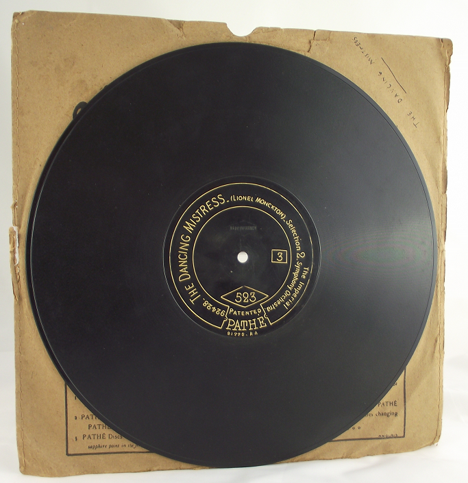 Vertical-groove pathé disc